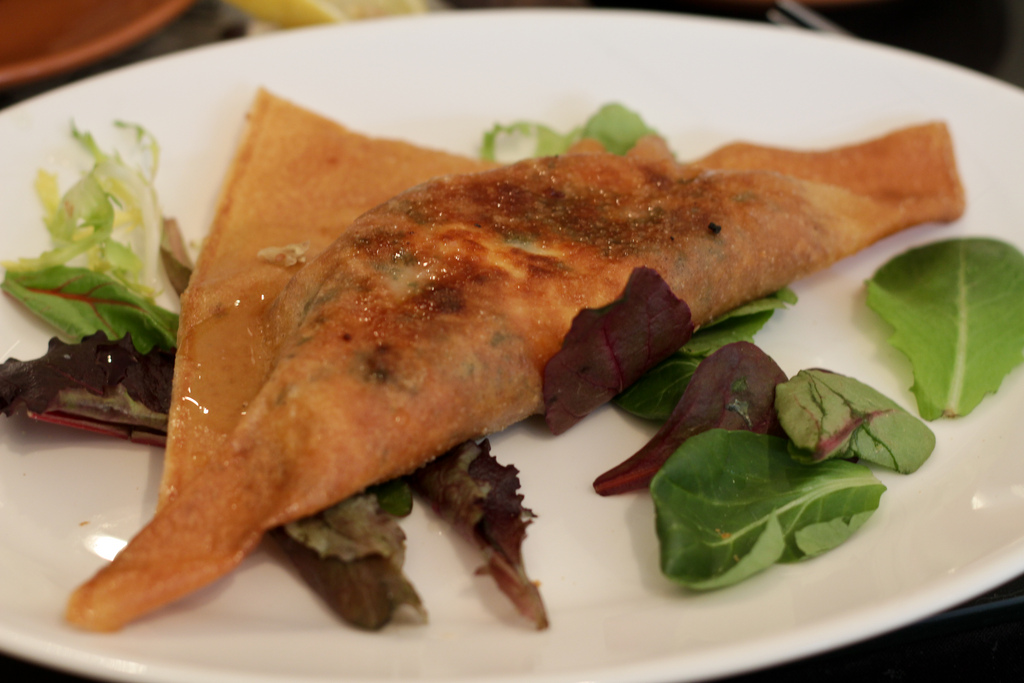 A brik from Harissa Cafe in Astoria, NY